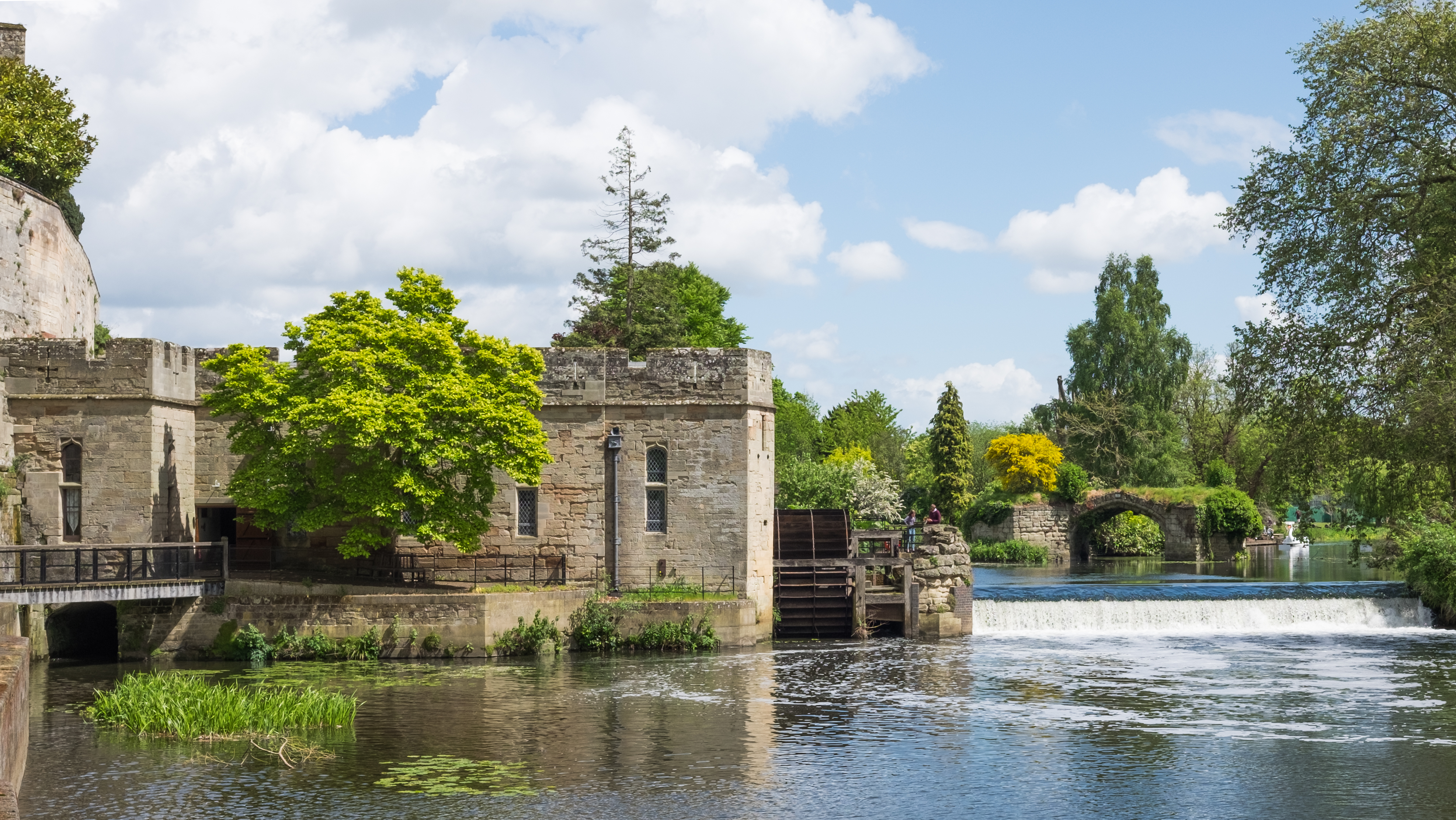 Warwick Castle engine House, waterwheel, and weir. Originally a flour mill, the building was converted to an engine room for the generation of electricity in 1894. The former mill is a grade II* listed building in England.